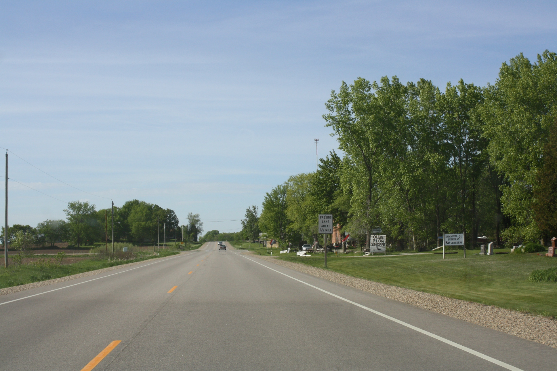 Looking north at Landstad, Wisconsin while traveling on Wisconsin Highway 47.